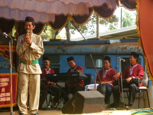 A traditional Indonesian musical troupe, Sinar Jaya, performing Gambang Kromong, a music performed on melodic percussions and brass, native of the Indonesian capital of Jakarta